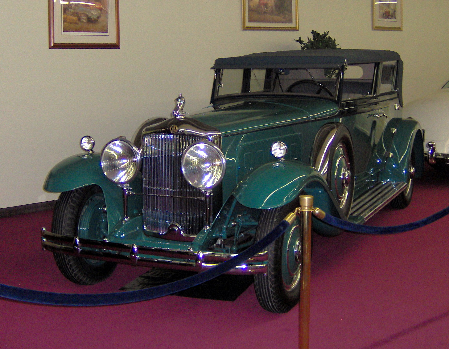 1931 Minerva 8 AL Rollston Convertible Sedan